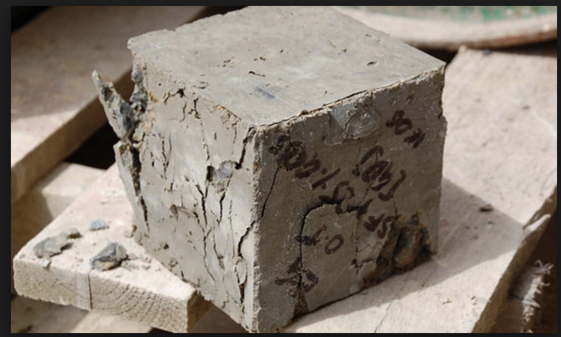 lime concrete